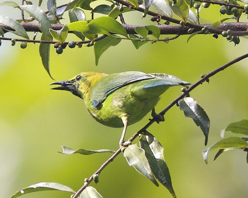 Blue-winged Leafbird Chloropsis cochinchinensis Panti forest, Johor 5th. October 2008 690V3820